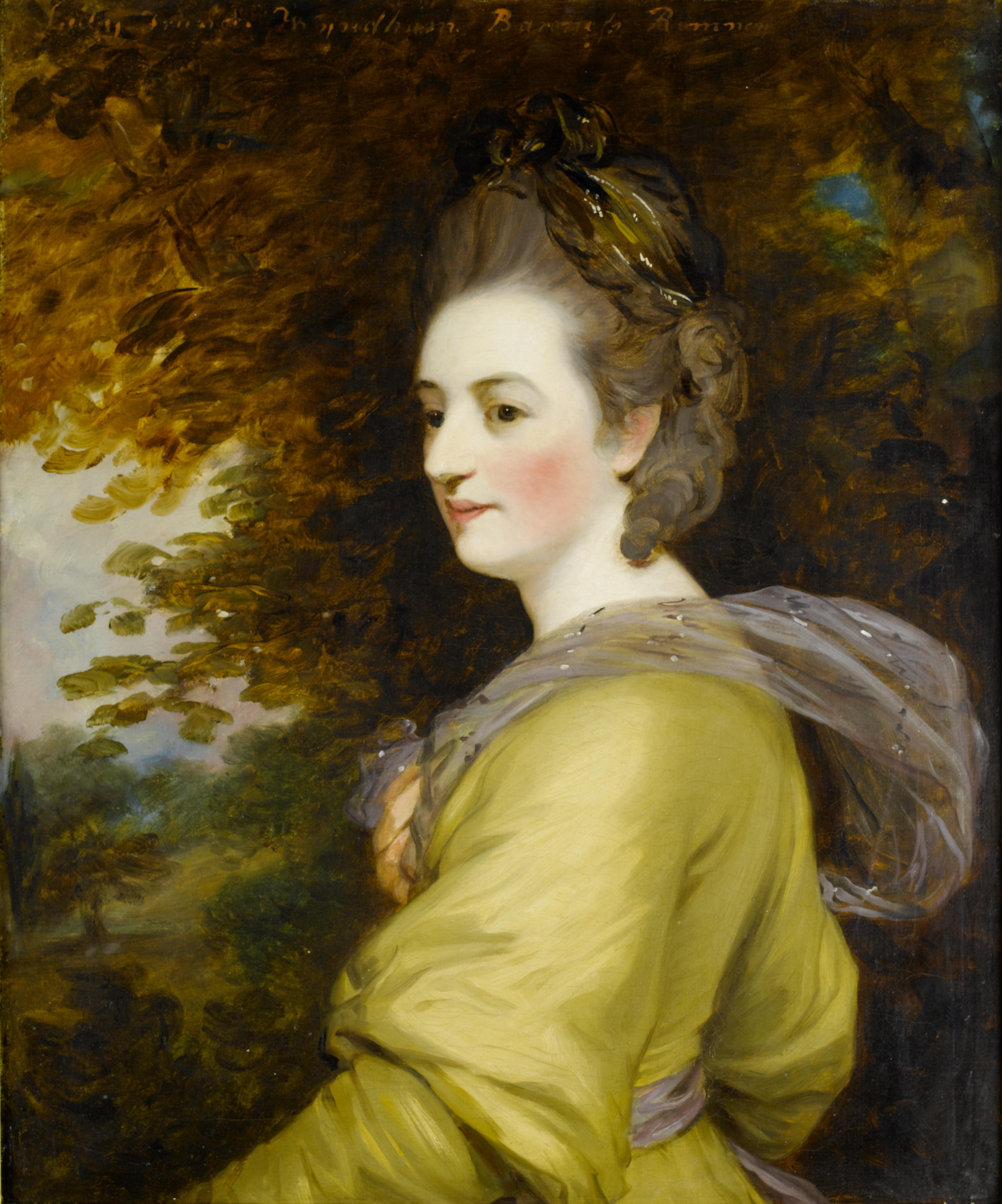 Portrait of Lady Frances Wyndham (1755-1795), daughter of Charles Wyndham, 2nd Earl of Egremont and wife of Charles Marsham, 1st Earl of Romney.